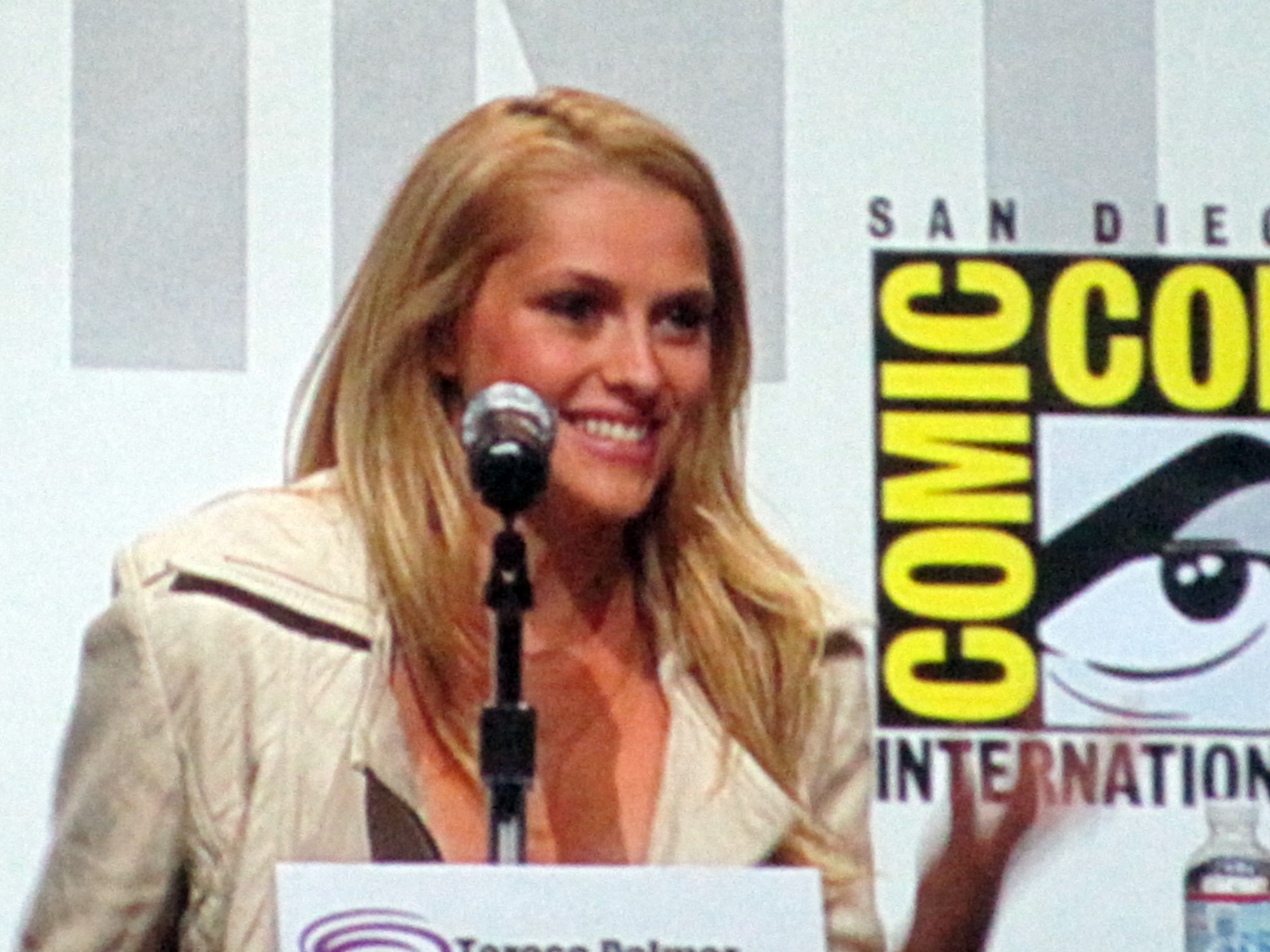 Actress Teresa Palmer participating in the The Sorcerer's Apprentice panel at WonderCon 2010.